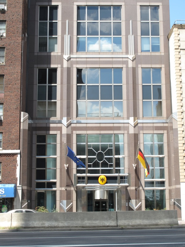 The German consulate building near the UN in New York City.